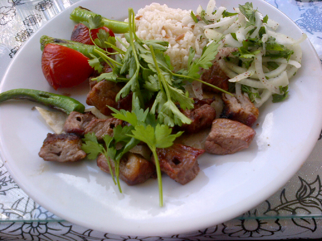 Shish kebab (Şiş kebap) of lamb, from Turkey.